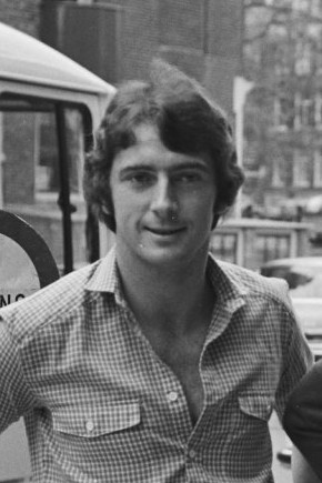 Trevor Francis of Nottingham Forest F.C. in Amsterdam for the 1979-80 European Cup match against Ajax